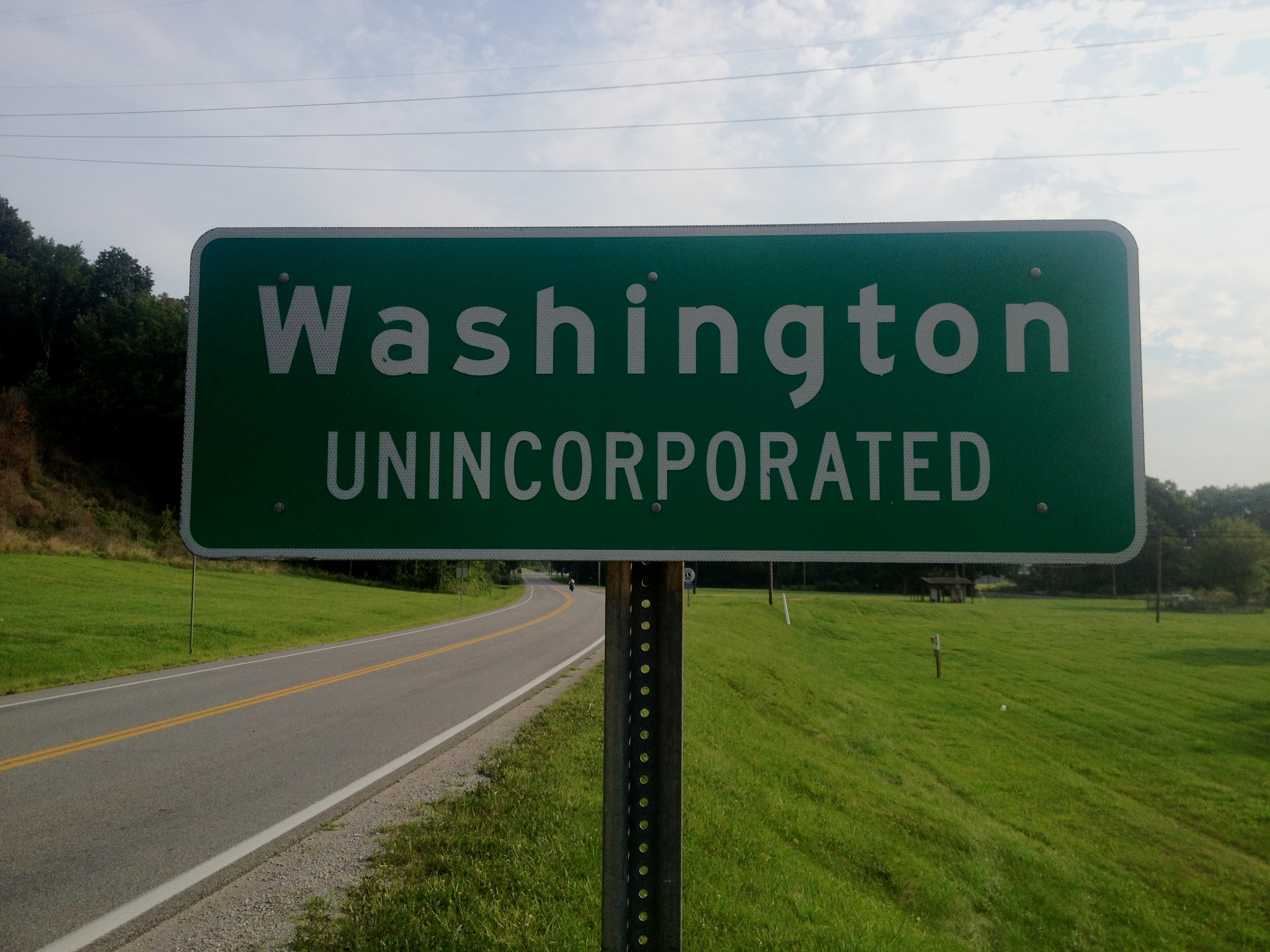 Washington, WV